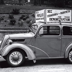 1950 - The new Ford Poplar is launched and advertised by Jennings Ford in Morpeth, Northumberland.